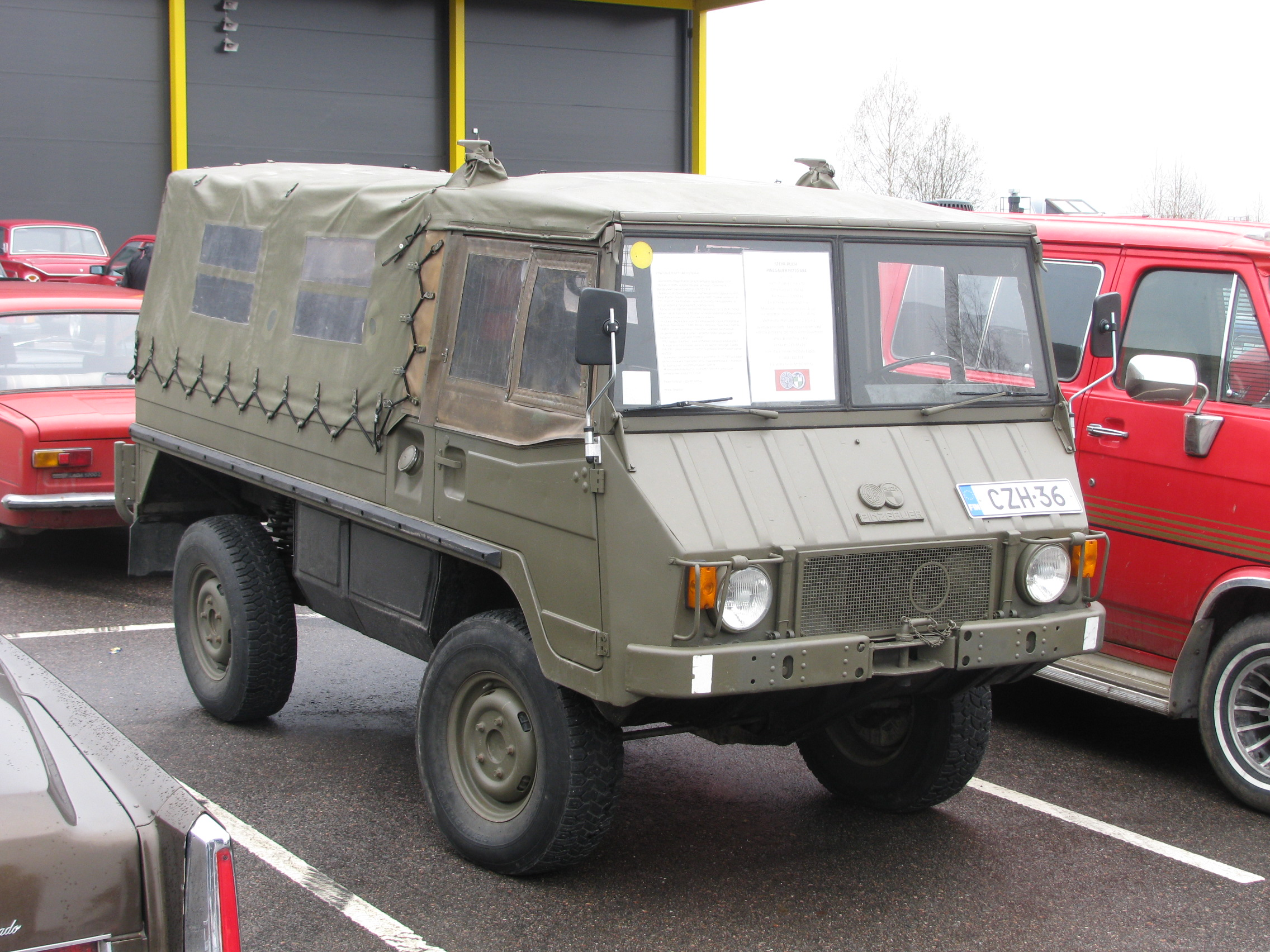 Steyr-Puch Pinzgauer, Classic Motor Show parking lot in Lahti, Finland.